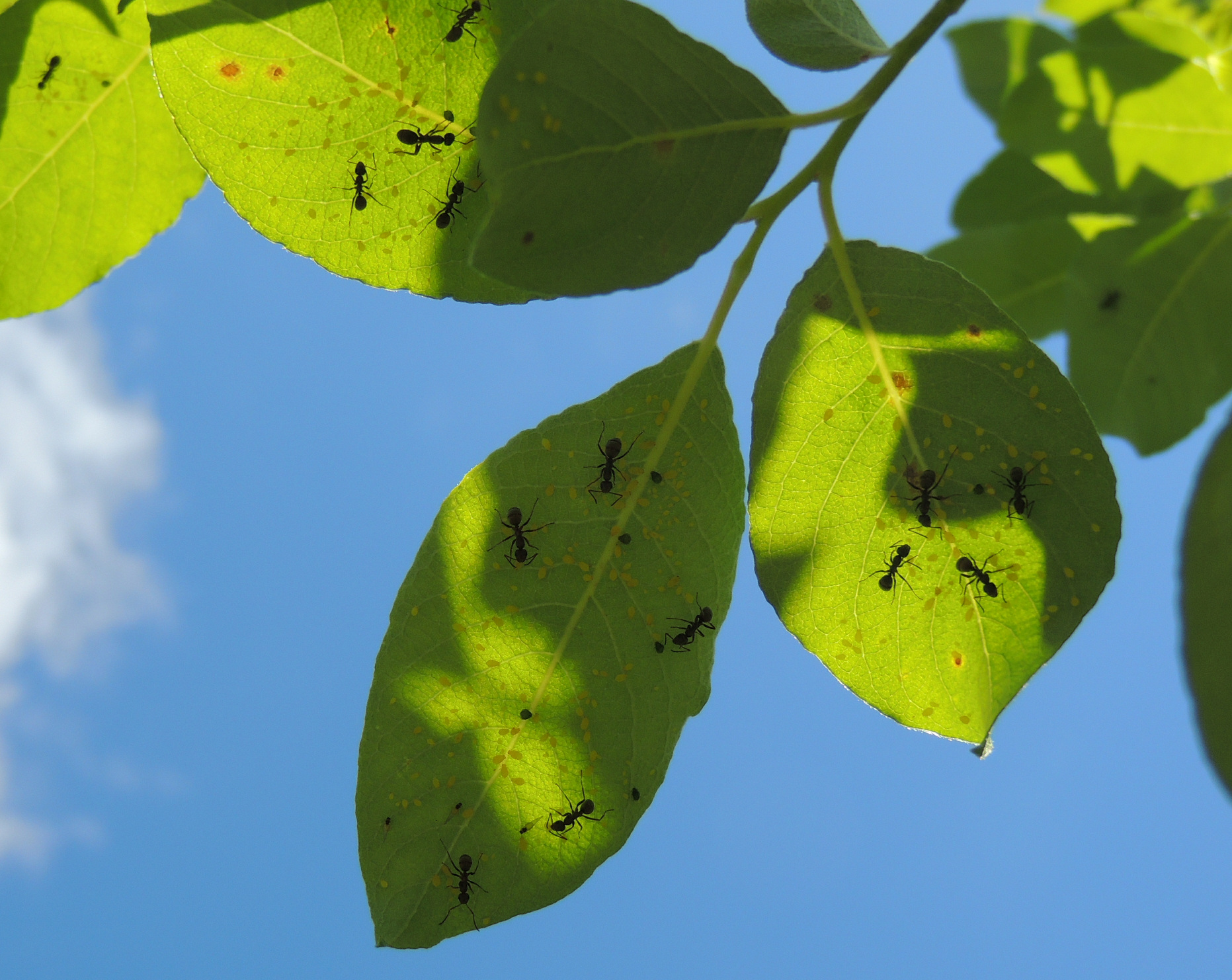 Ants Formica fusca. Aphid "farm". Southeast of the Leningrad region.